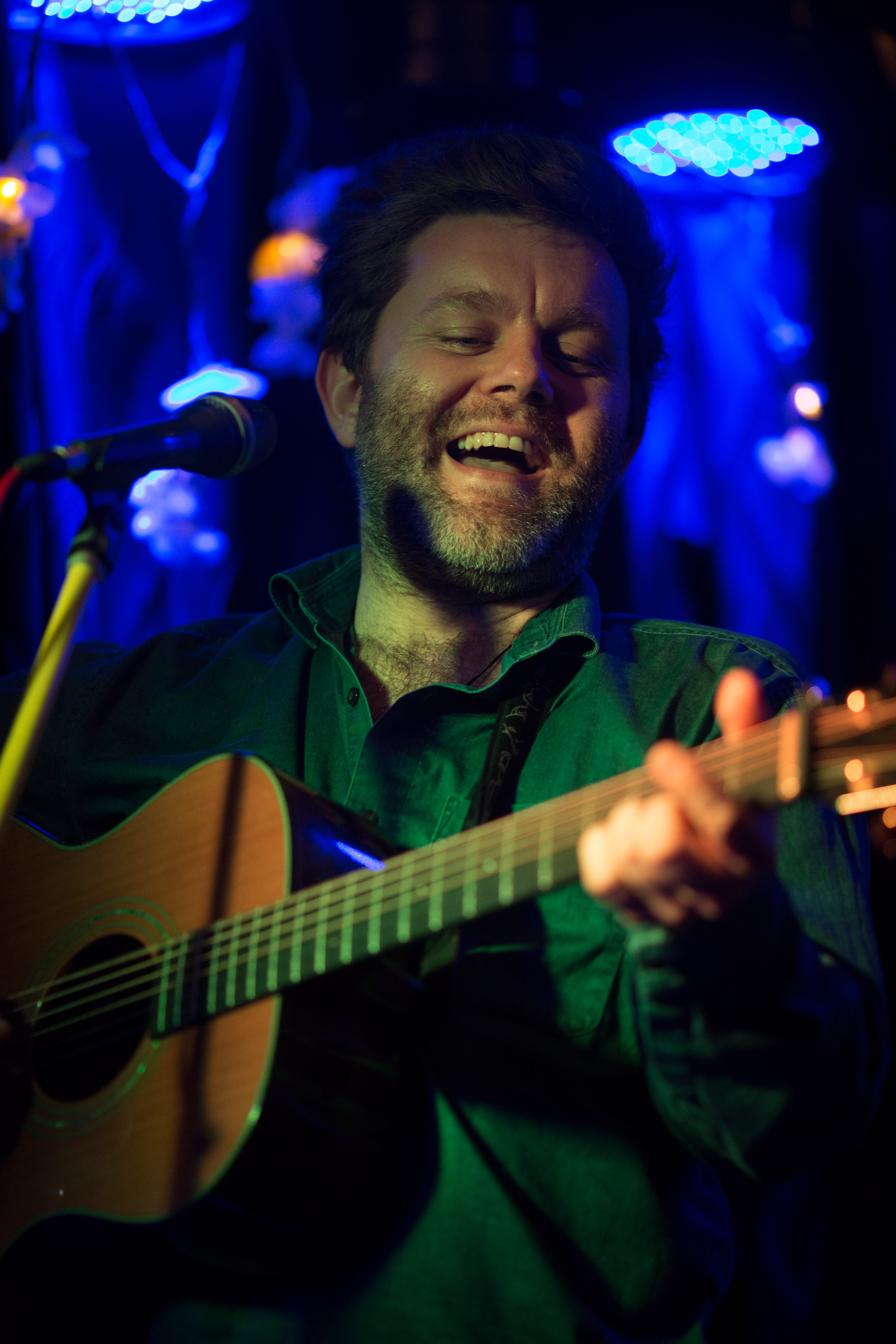 Roesy @ The Newsagency - 21st June 2013